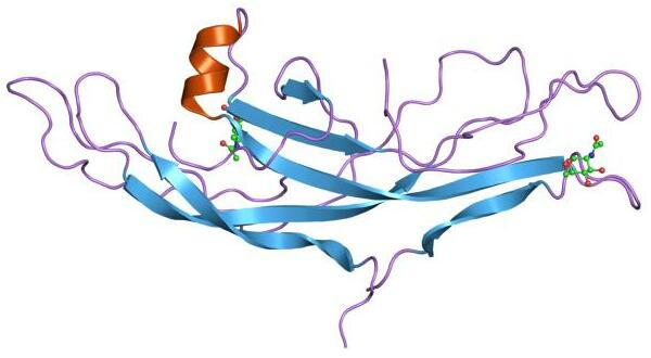 Cartoon representation of the molecular structure of protein registered with 1hcn code.